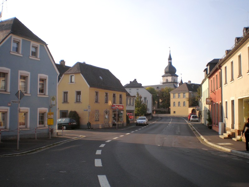 City of Marktleuthen, Bavaria, Germany